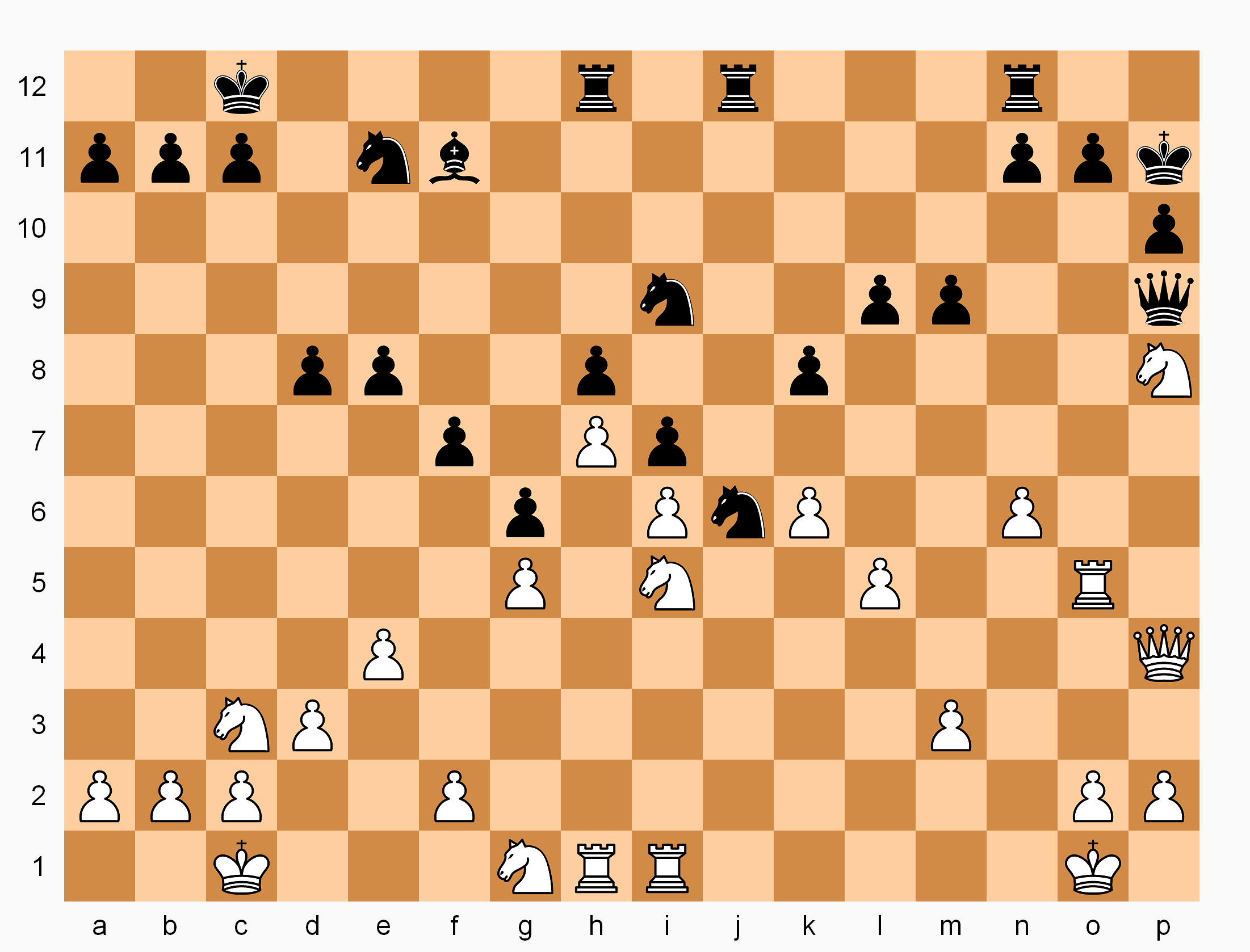 Maroczy vs. Capablanca, position after 58.Nxg1. Using the great free-use icons fashioned by User:Dbenbenn (David Benbennick); all done in MS PAINT.